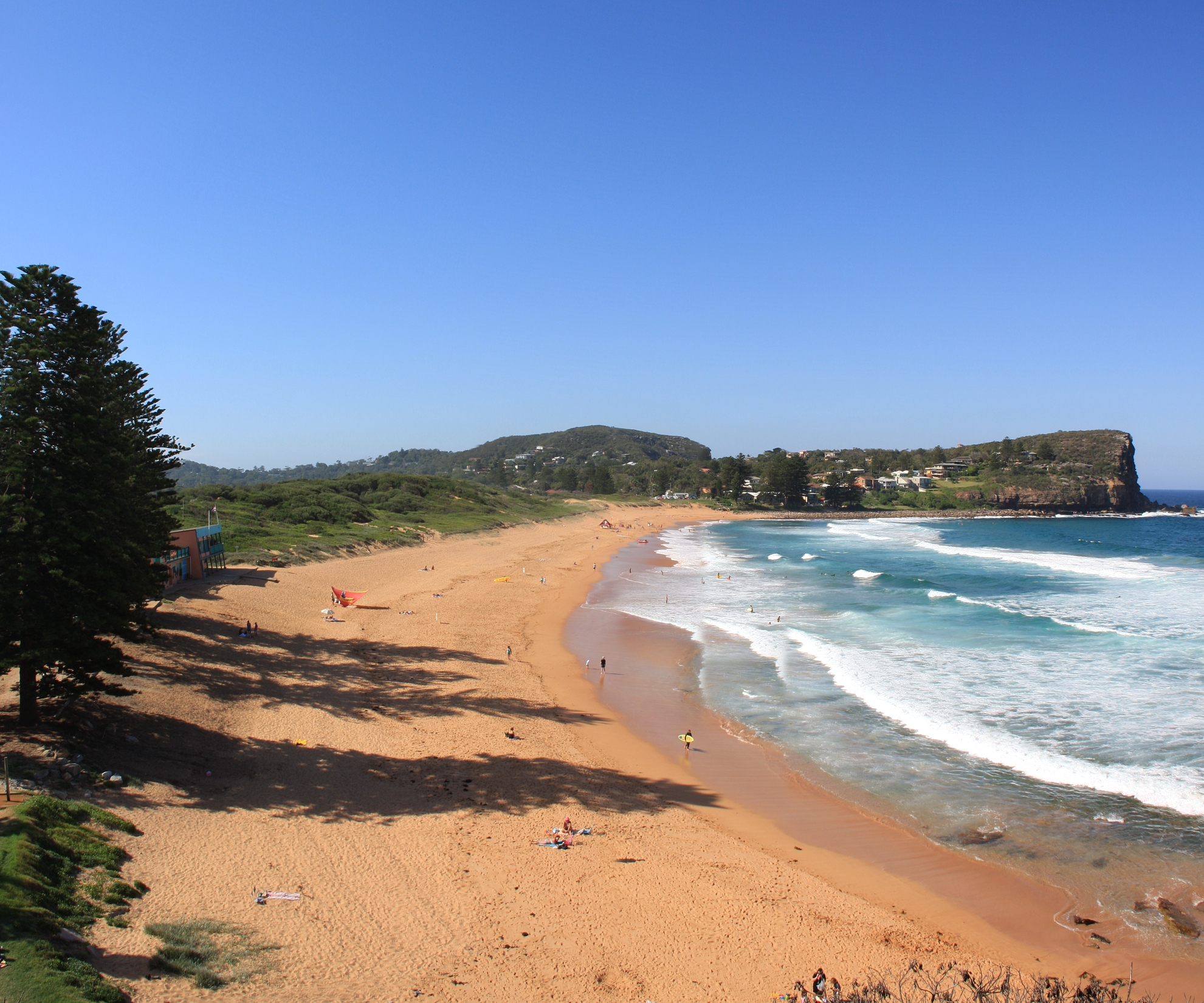 Avalon Beach, New South Wales